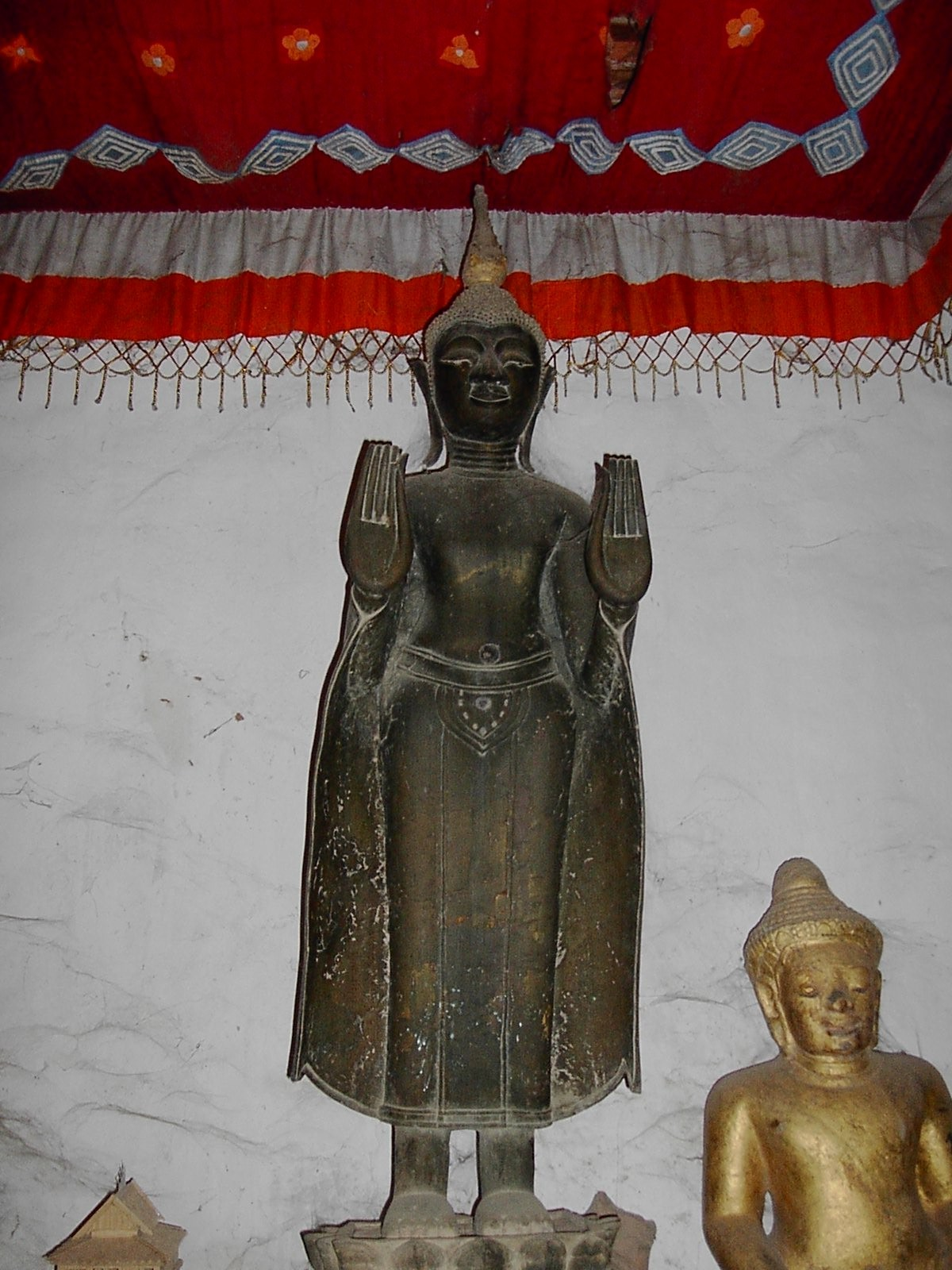 Statue of "the Buddha preaching on reason," with the Buddha's hands in the double abhāya mudrā position. Located in the Wat Xieng Thong Temple (Luang Phrabāng, Laos). The statue has been present at the temple for hundreds of years.